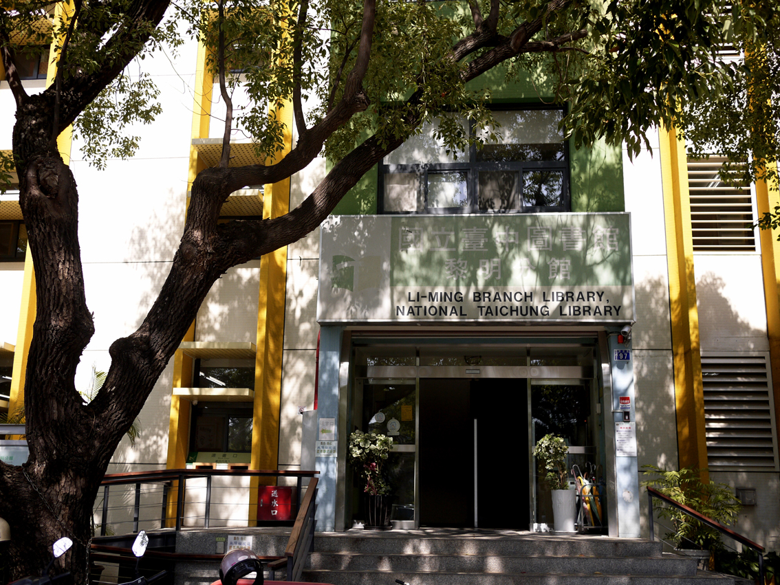 The main entrance to the Liming Branch Library was built on Bo-ai Street.This library belongs to the "National Taichung Library".